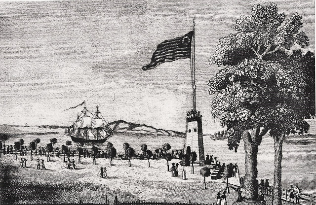 New York, Battery Park 1793